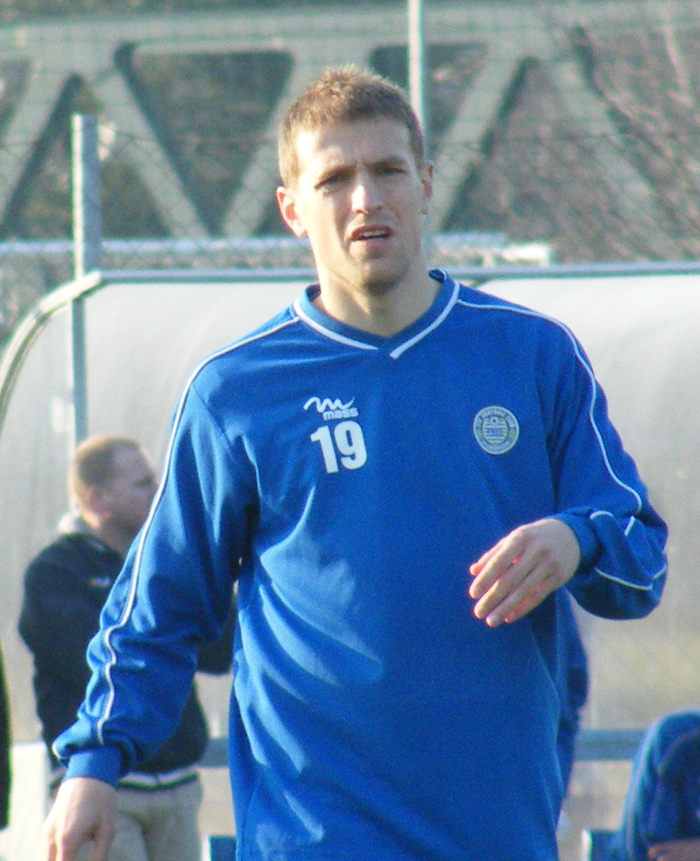 Đorđe Kamber Serbian footballer